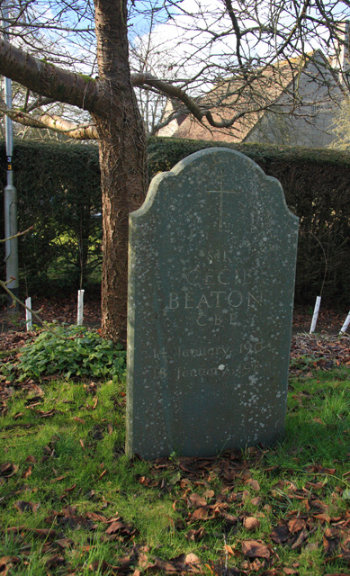 Grave of Sir Cecil Beaton, All Saints' parish churchyard, Broad Chalke, Wiltshire. Born Cecil Walter Hardy Beaton in London on 14 Jan 1904, he died at Reddish House, his home at Broad Chalke, on 18 Jan 1980. Best known for his work as a Royal Court and 'Society' photographer, he was also a most successful film, stage and costume designer. Recognition for his work came in the form of a CBE, and in 1972, a knighthood. A full biography can be found at